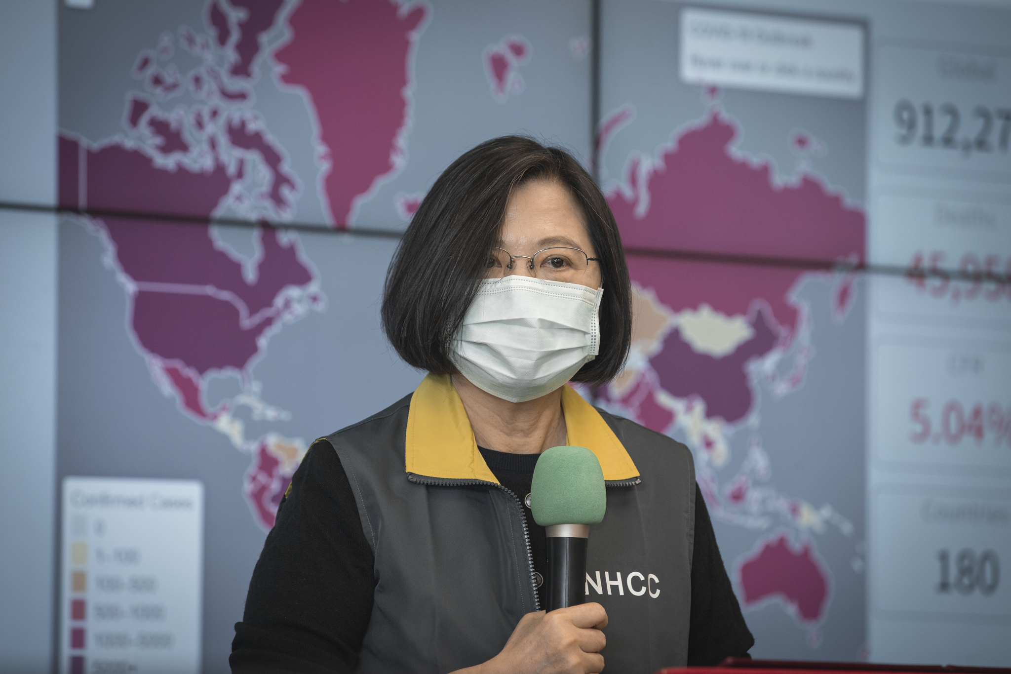 President Tsai Ing-wen inspects the Central Epidemic Command Center on April 2, 2020.